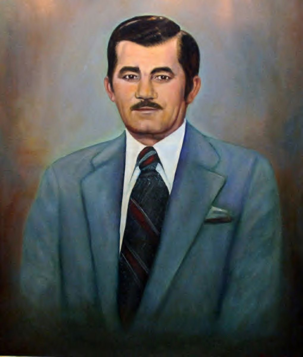 Painting of the Honorable Juan Cancel Ríos, former Secretary of State of Puerto Rico.